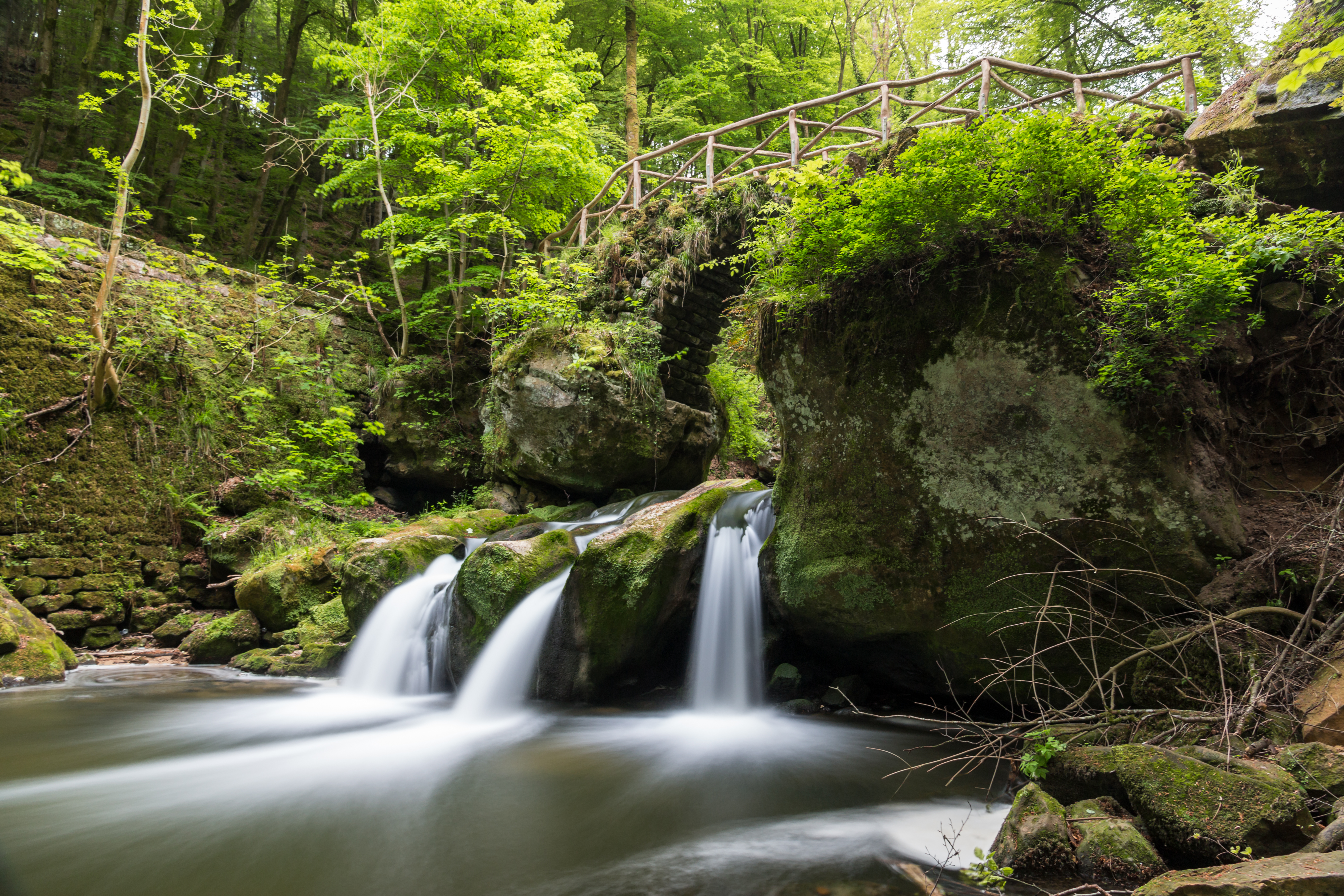 Schiessentümpel (and Bridge) in Müllerthal, Luxembourg